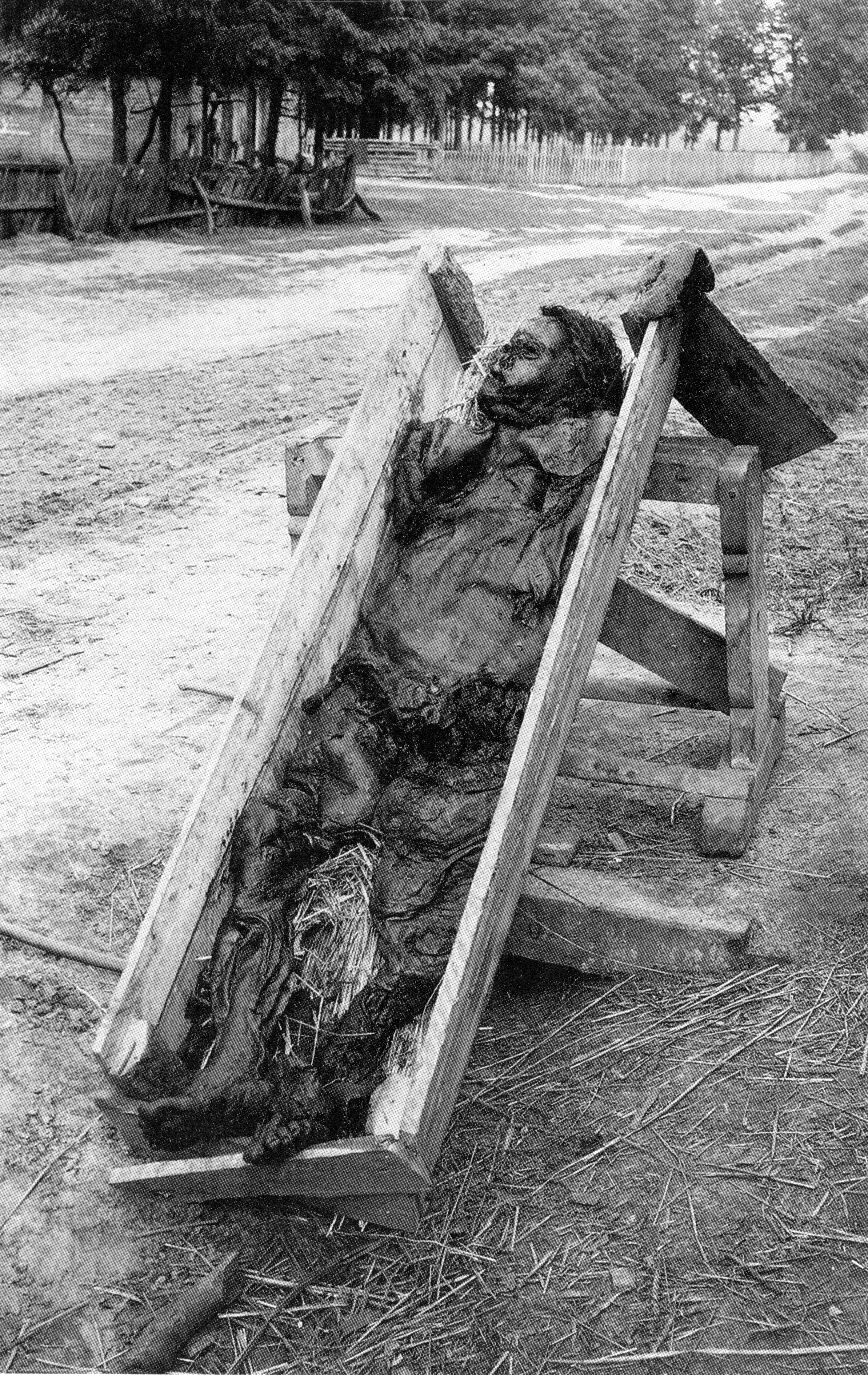 Bog body "Kreepen Man" after his excavation in 1903 in a provisional cradle for transport. The remains of the body no longer exist.